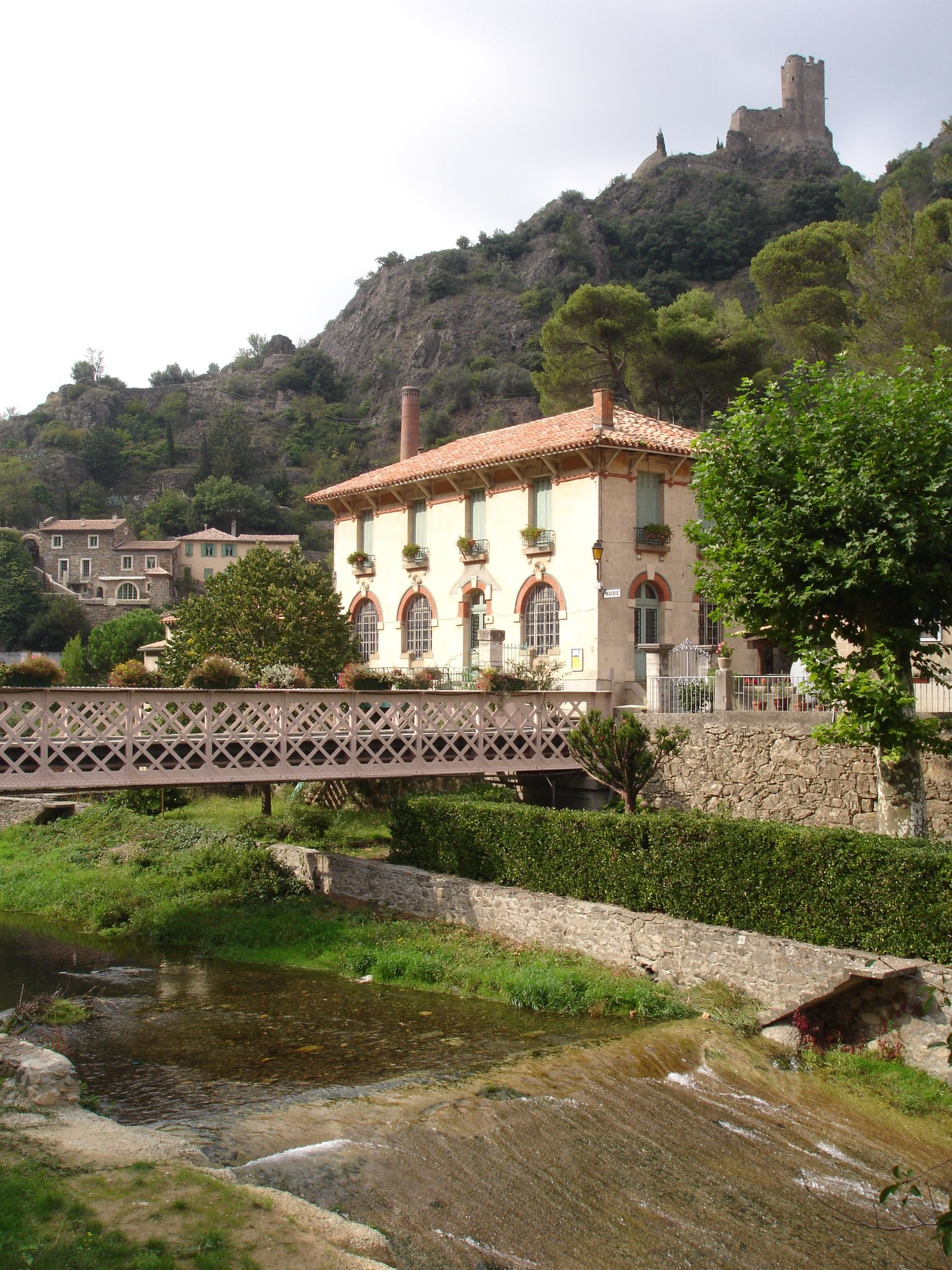 France, Aude (11), Village of Lastours